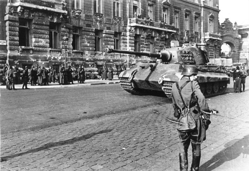 Location: The Castle district of Buda, on St. George Square, near the Royal Castle. The photo shows the façade of the Palace of Archduke Joseph August of Austria (earlier Palace of the Counts Teleki). The Palace does not exist any more, as it was severely damaged during the siege of 1944, and completely demolished in the 1960s. Date and time: On 15 or 16 October 1944, when the Arrow Cross Party seized power. Schwere Panzer-Abteilung 503. Only Tiger II unit to go to Budapest[1] ↑ Schneider, Tigers in Combat I, map of area of operations ISBN 9780811731713